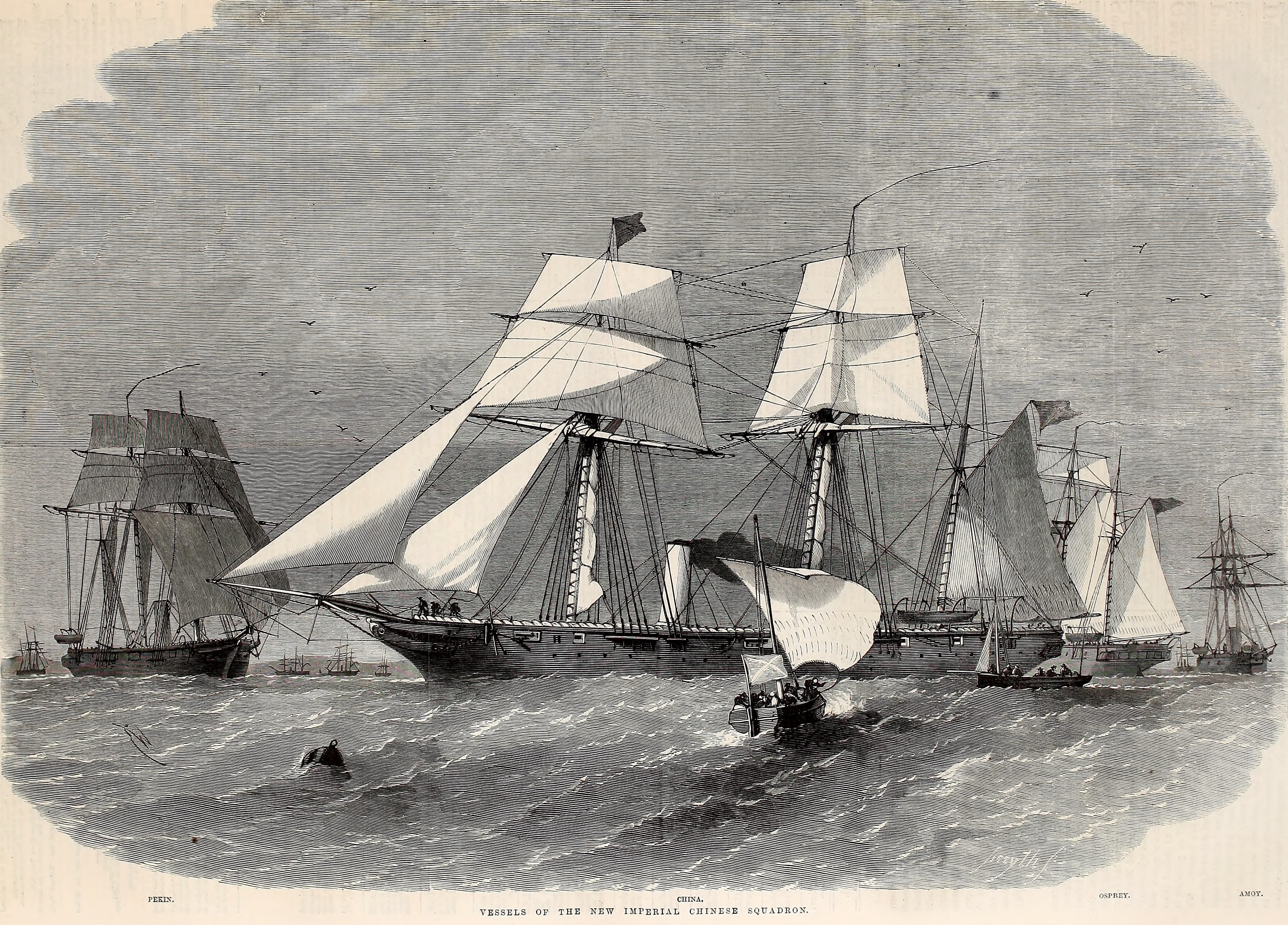 Engraving of vessels of the new Imperial Chinese Squadron (Lay-Osborn flotilla) fitting out in England. The vessels pictured originally served in the Royal Navy. They are (from left to right) Pekin, China, HMS Osprey (1856) and Amoy.